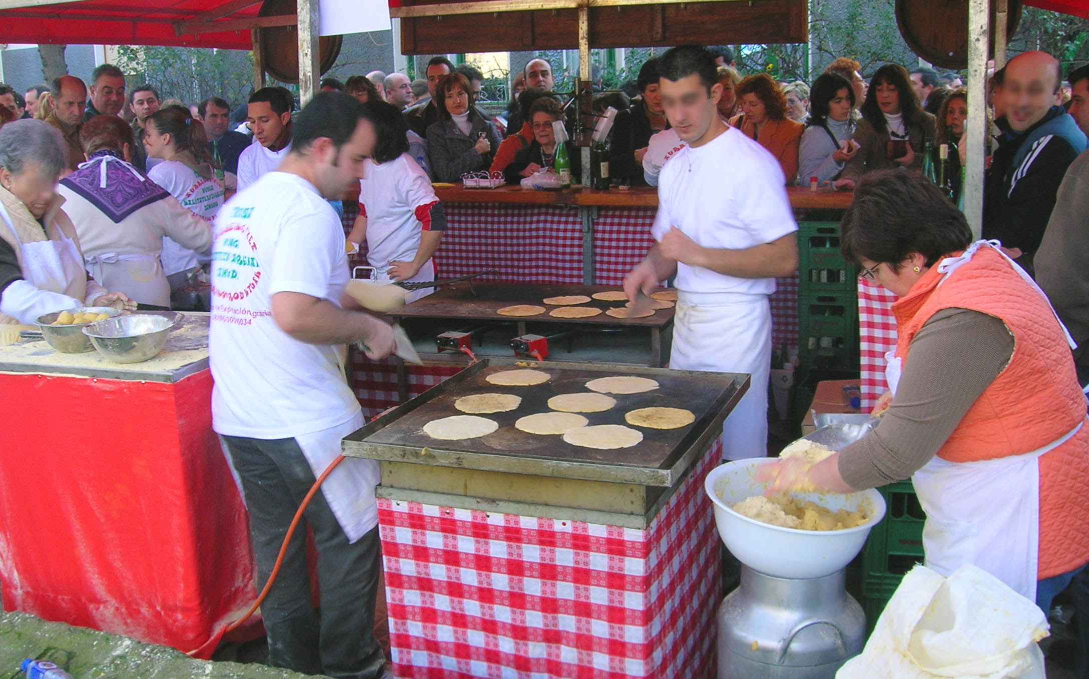 Preparación de talo en fiestas de San Vicente en Barakaldo.